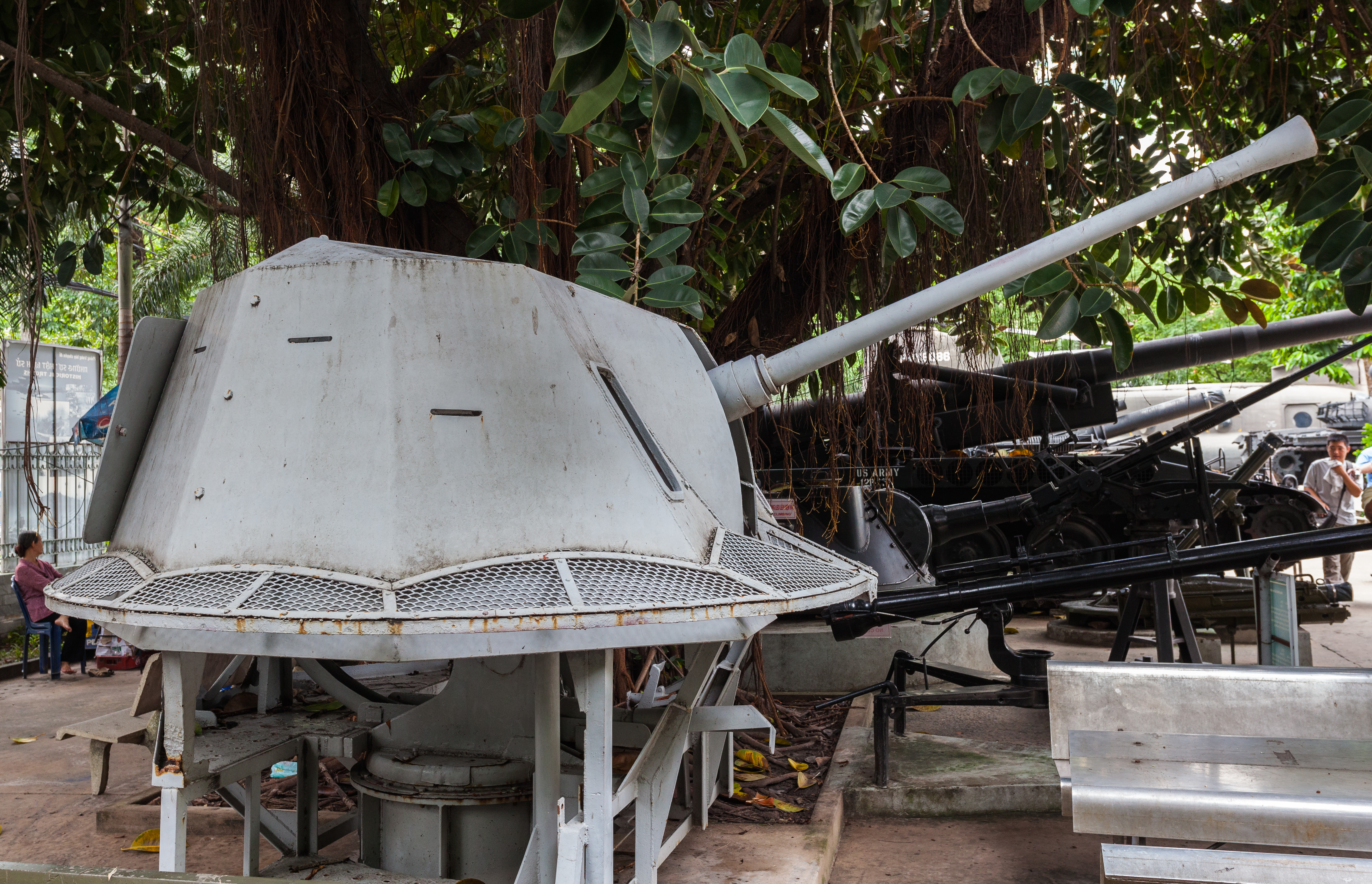 Artillery, Ho Chi Minh City, VietnamTiếng Việt: Pháo trưng bày trong bảo tàng Chứng tích Chiến tranh, Thành phố Hồ Chí Minh, Việt Nam.